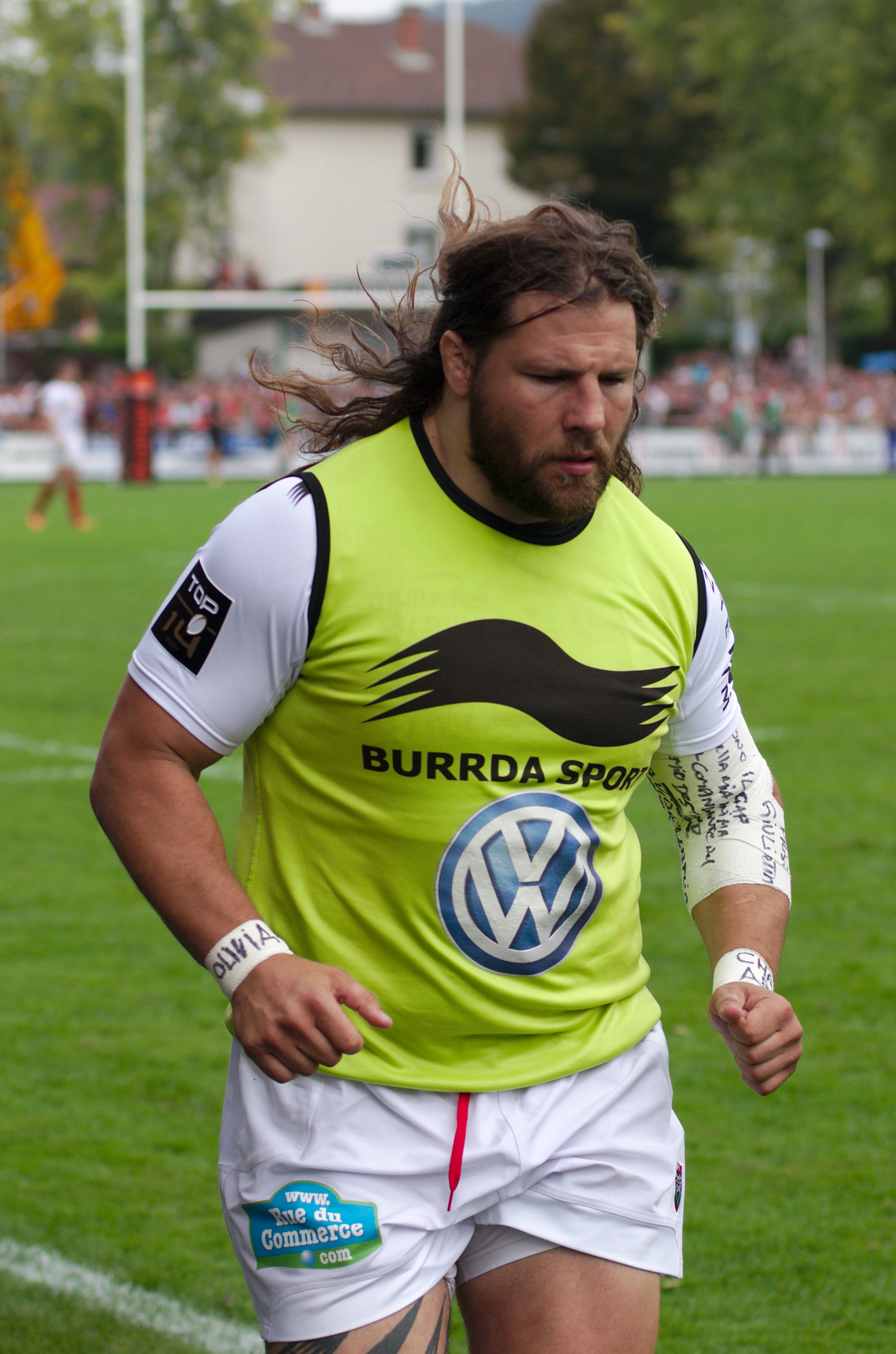 USO - RCT - 28-09-2013 - Stade Mathon - Martin Castrogiovanni